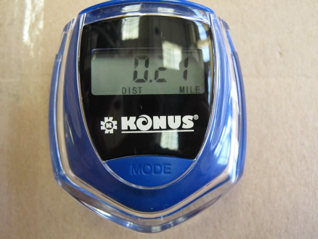 digital counterstep Konus Zippy Sun